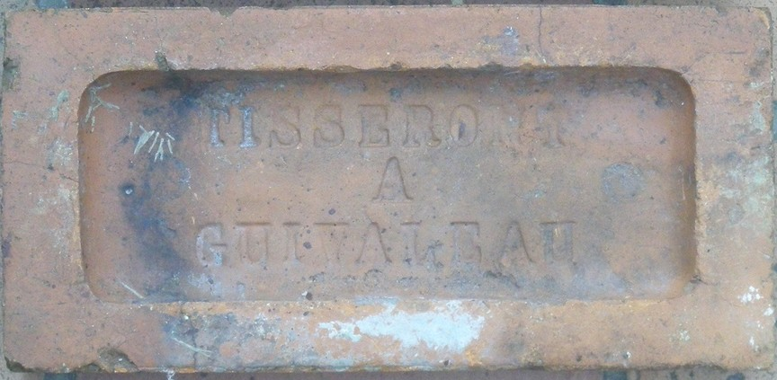 Joseph Tisseront's logo